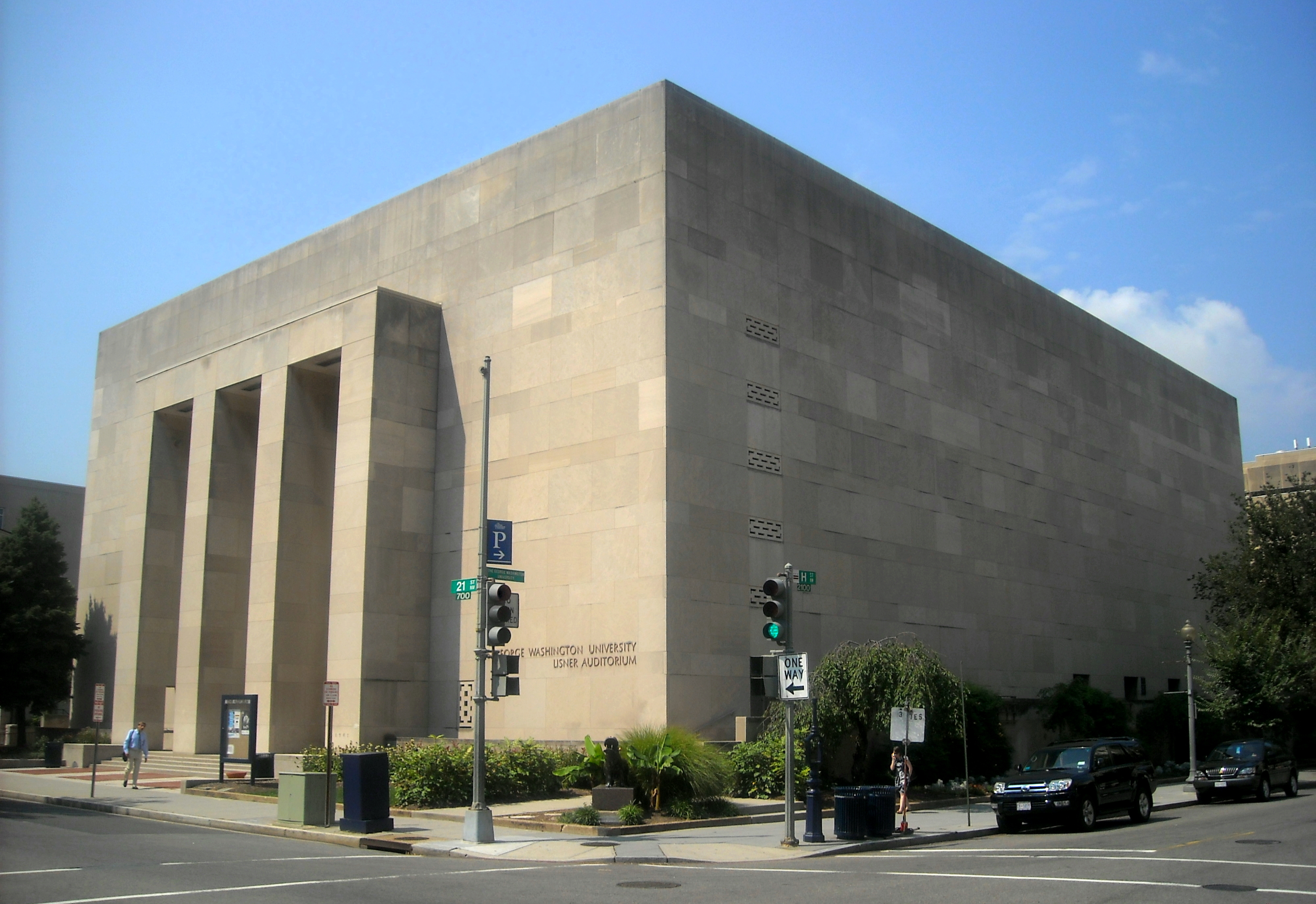 The Lisner Auditorium (also known as the George Washington University Lisner Auditorium) located at 730 21st Street, NW in the Foggy Bottom neighborhood of Washington, D.C. Designed by Faulkner & Kingsbury in 1940, the Lisner Auditorium is an example of Modernist architecture. It was added to the National Register of Historic Places on October 25, 1990.